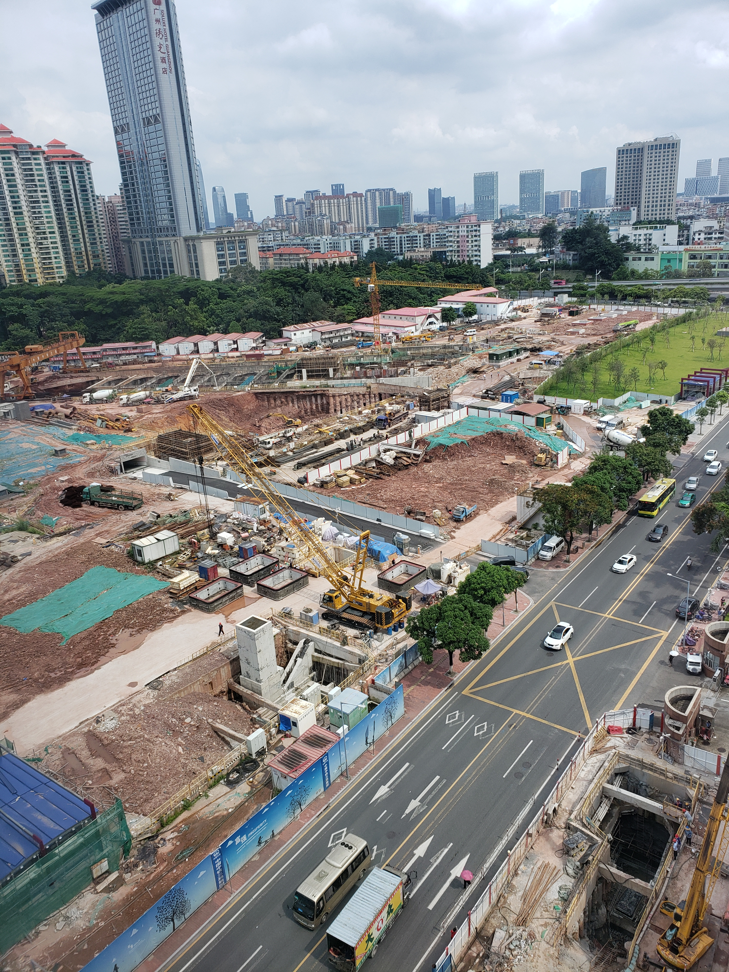 Construction site of Tianhe Park station, photoed in July, 2019.